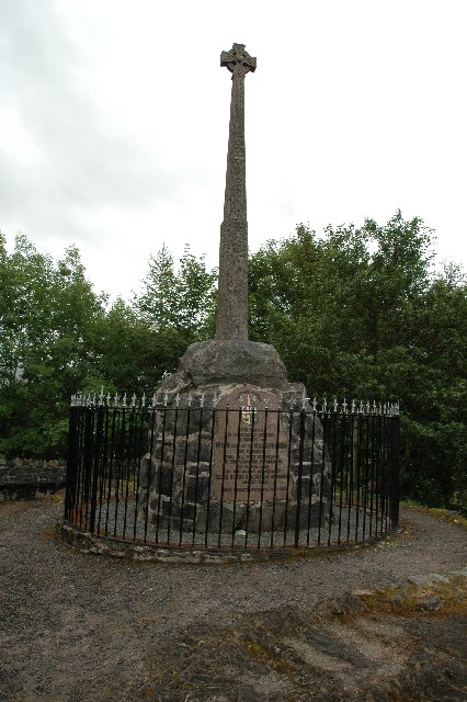 Monument in Glencoe. This is a monument in Glencoe. The inscription reads as follows:- This cross is reverently erected in memory of McIan, Chief of the MacDonalds of Glencoe who fell with his people in the massacre of Glencoe of 13 Feb: 1692 by his direct descendant Ellen Burns MacDonald of Glencoe August 1883. Their memory liveth for evermore.